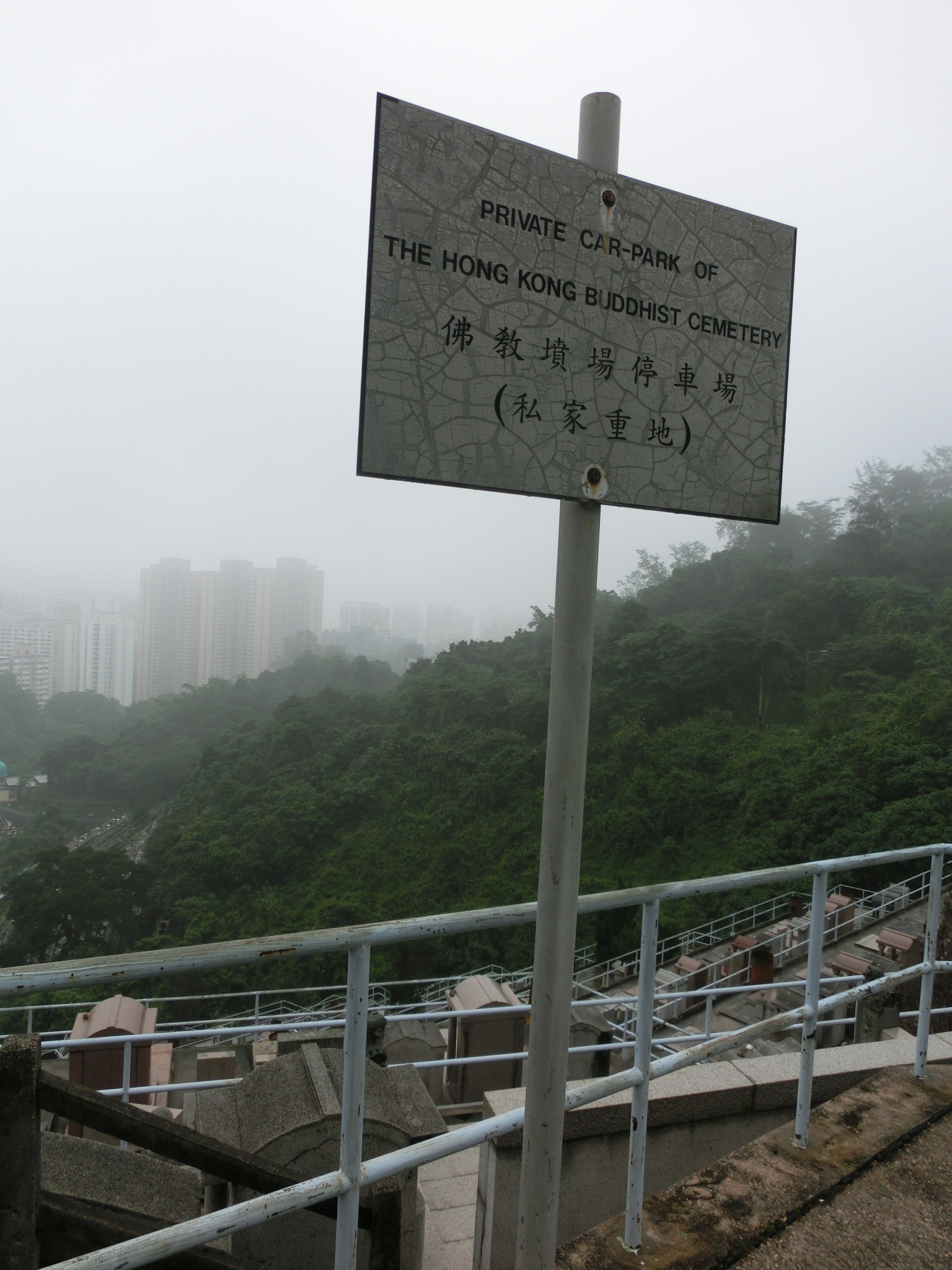 柴灣 香港佛教墳場, Hong Kong Buddhist Cemetery, Cape Collinson Road, Chai Wan, Hong Kong